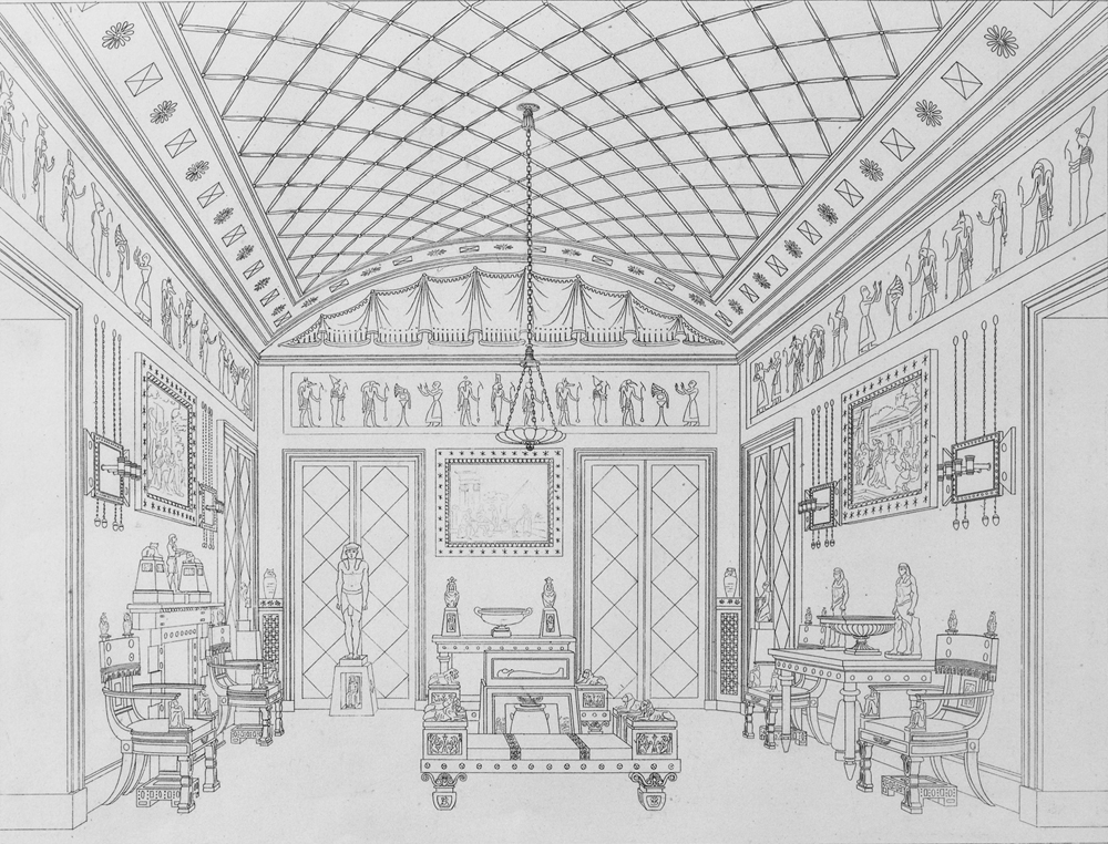 The Egyptian Room, Household Furniture & Interior Decoration, by Thomas Hope, London, 1807.